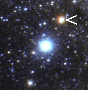 Position of Tarazed (mag 2.7) relative to Altair (mag 0.8 at center). Compare to Wikisky version.